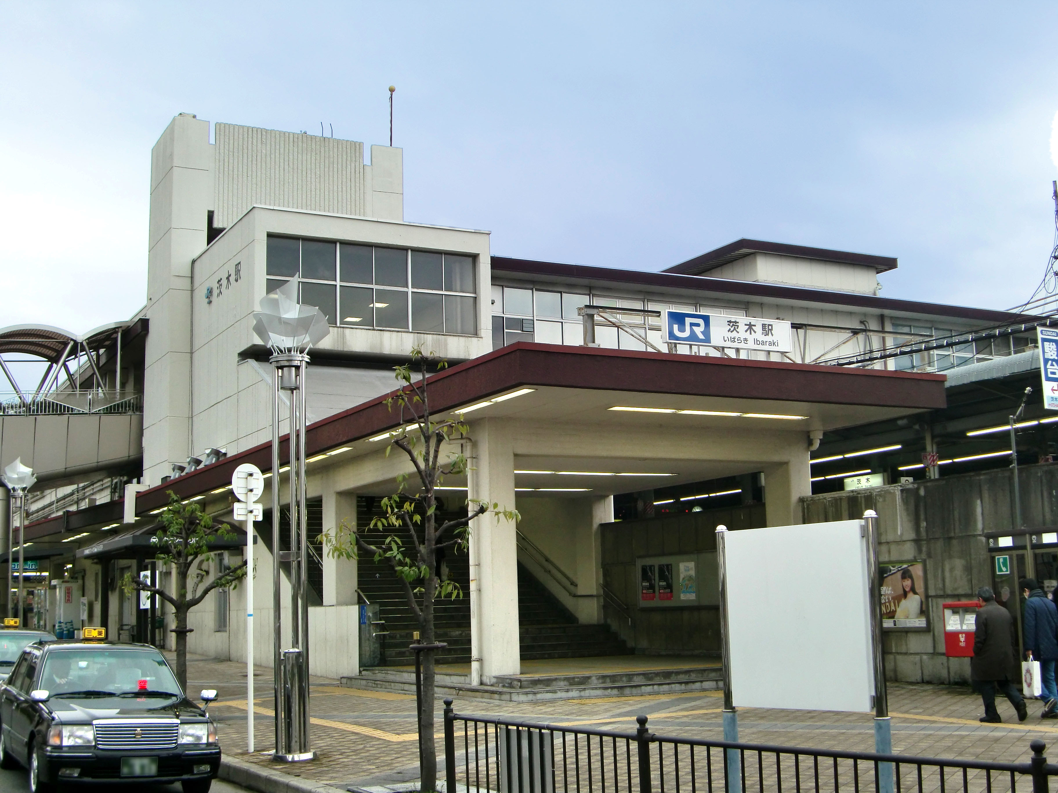 JR Ibaraki Station(East Entrance),1-1-10 Ekimae Ibaraki-City Osaka Japan.